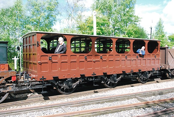 Replica of GWR Gooch 6-wheeled Second Class broad gauge coach, though some original parts were included. At Didcot, 05/10.